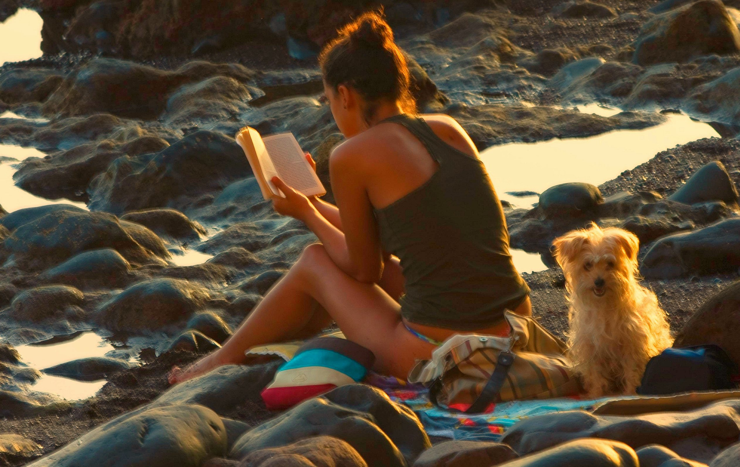 Girl reading at the beach and a dog